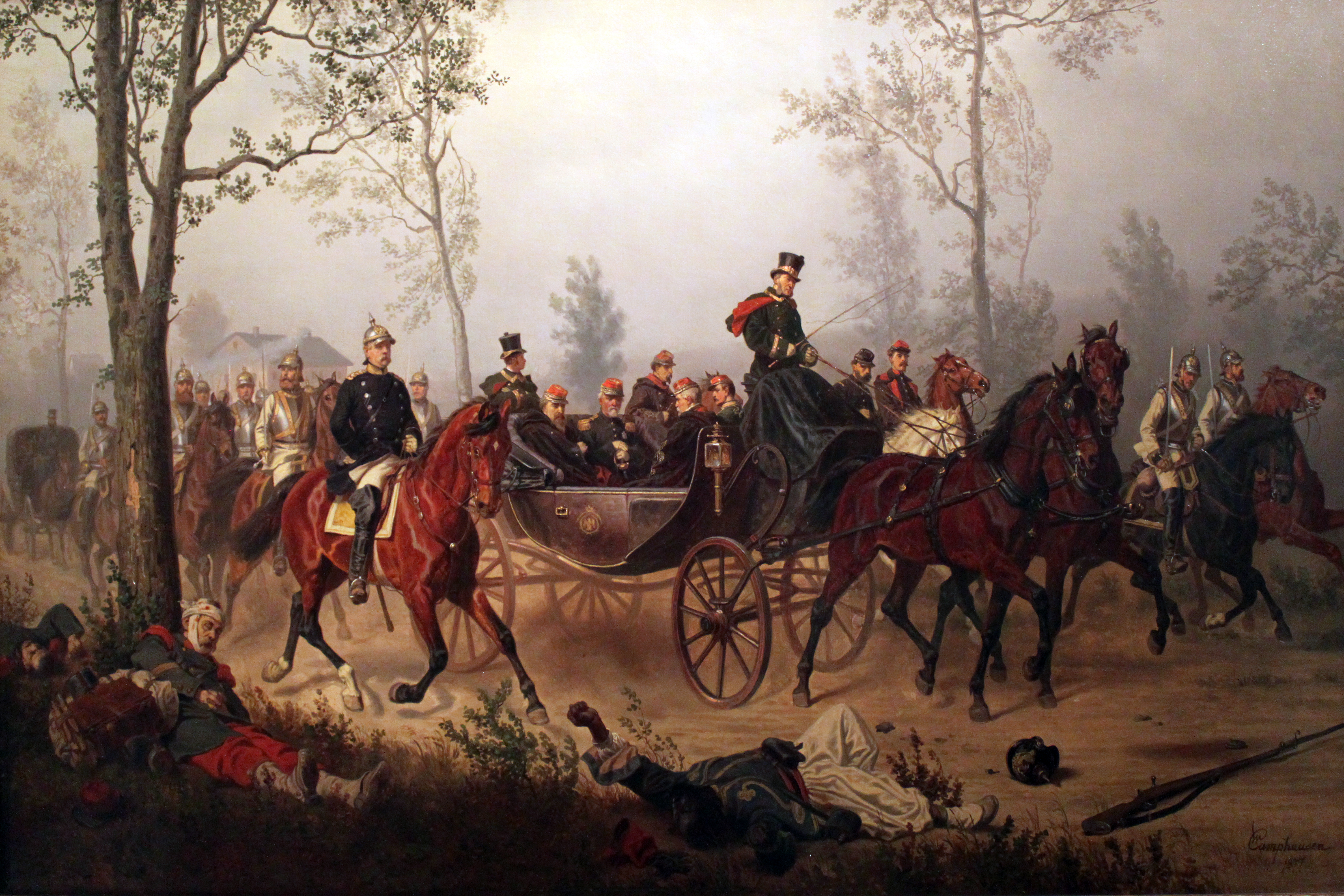 Otto von Bismarck escorts Emperor Napoleon III